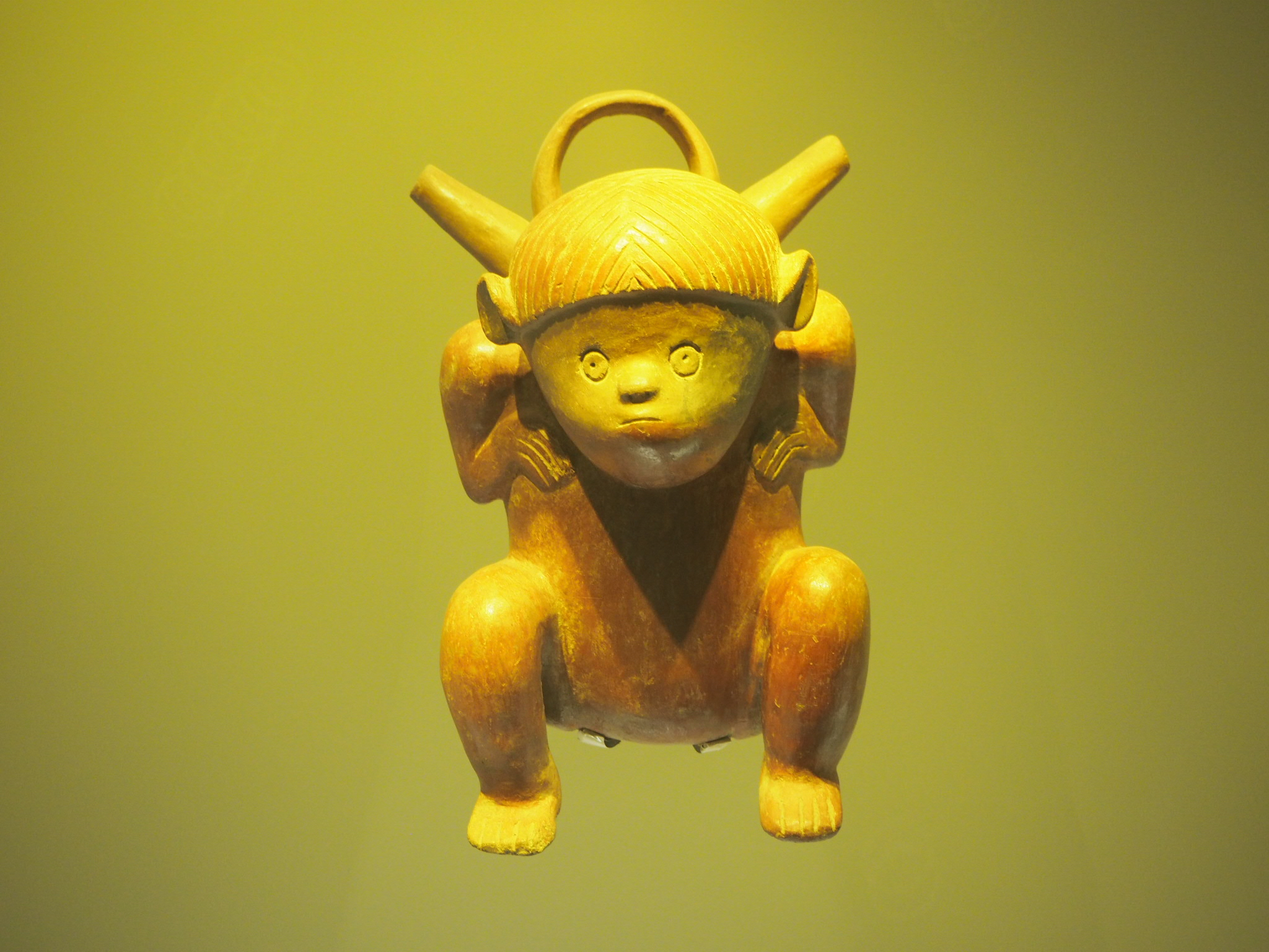 Colombian Gold Museum